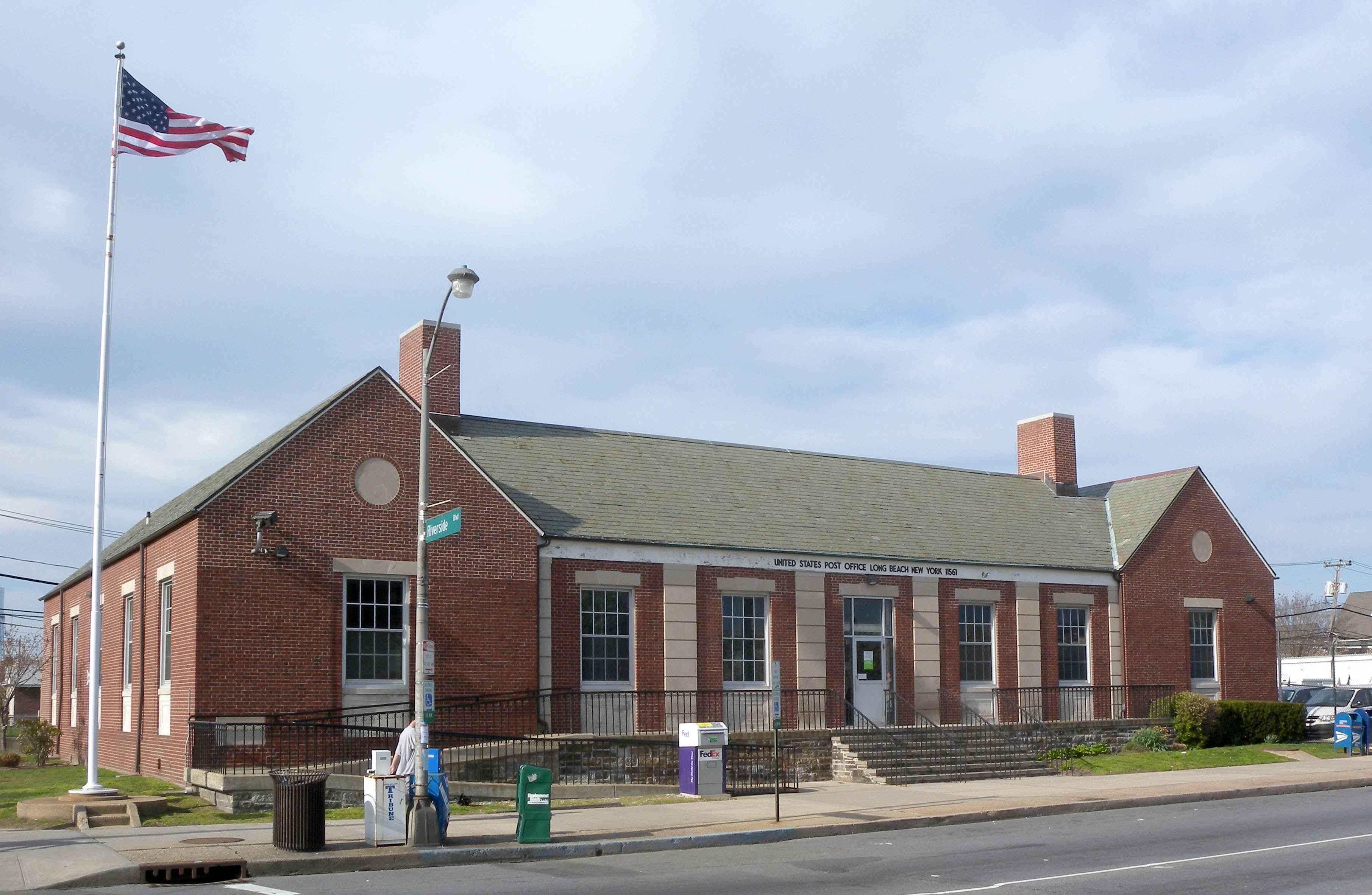 Looking northeast across Park Avenue and Riverside Boulevard at Post Office Long Beach on a partly sunny afternoon.